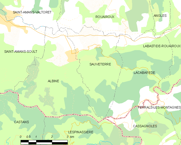 Map commune FR insee code 81278.png - Sauveterre (Tarn)